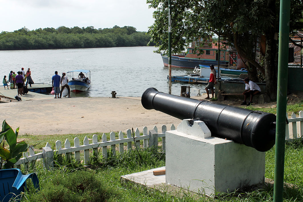 An 18th century cannon situated in the main street of the city has an inscription commemorating battles between liberal and conservative factions.